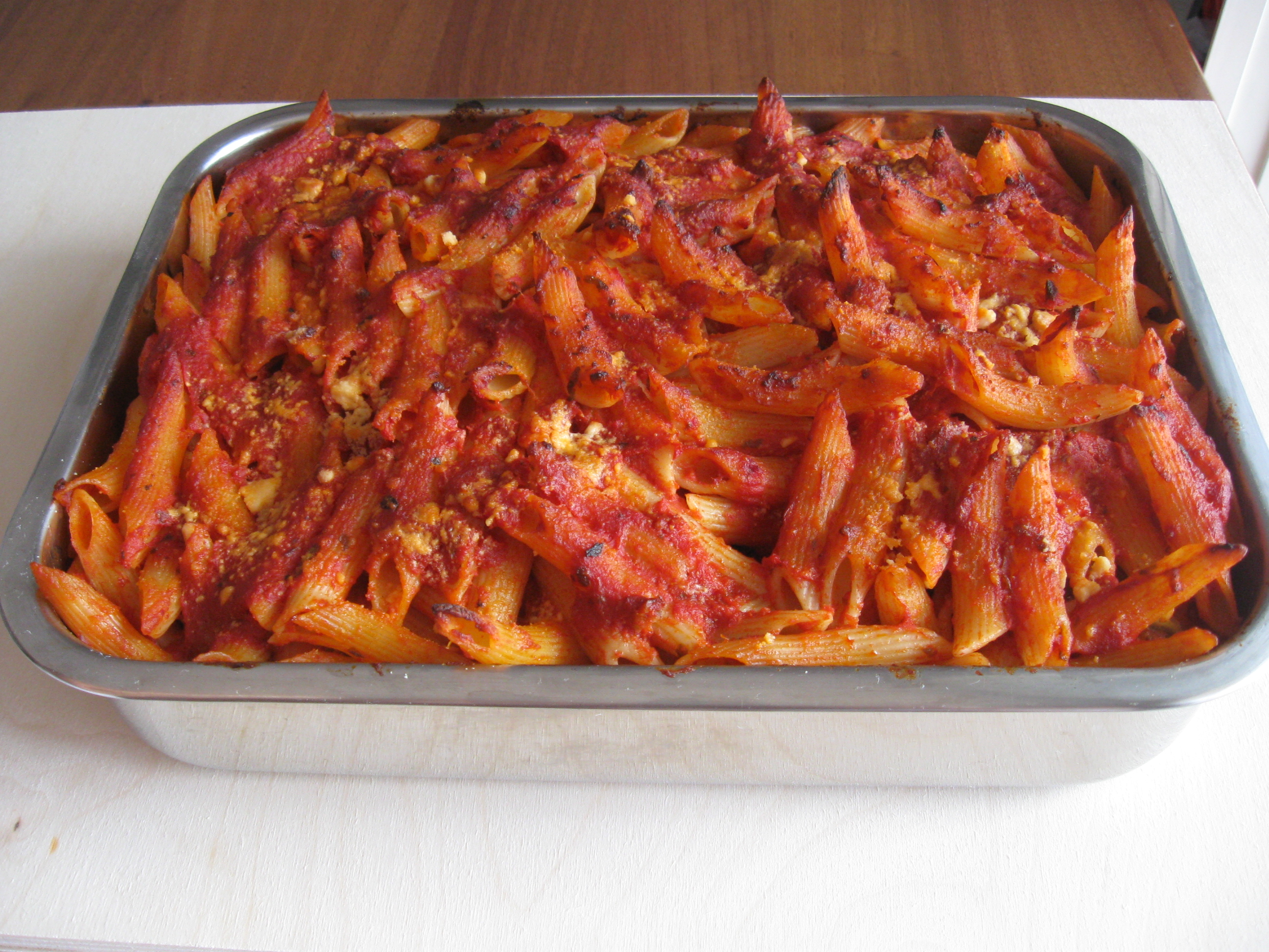 Typical oven-baked pasta from Southern Italy (Catanzaro Lido, Calabria), masterly prepared and cooked by miss Mimma Petrarca on June 11, 2011.